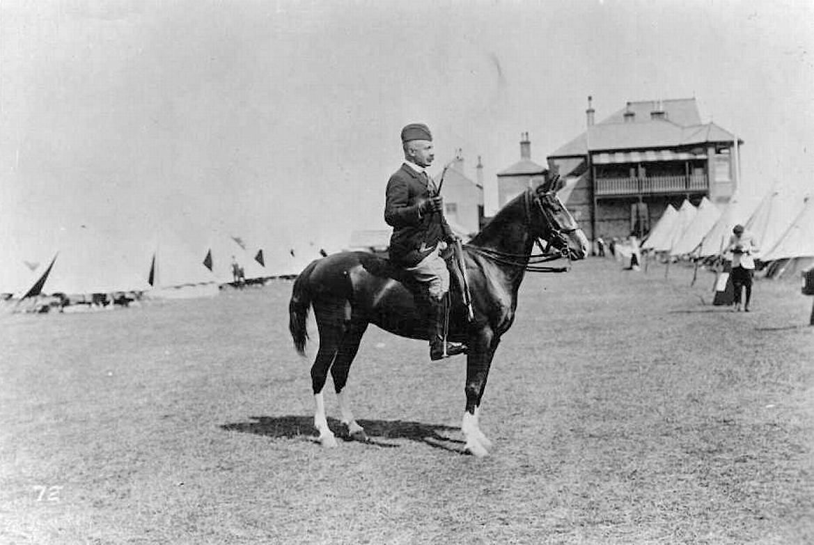 Colonel Albert Edward W. Goldsmid - High-ranking officer in the British Army. Founder of the Jewish Lads' and Girls' Brigade, and founder and president of the Anglo-Jewish charity, the Maccabaeans. An ardent Zionist, he was chief of the Chovevei Zion of Great Britain and Ireland.